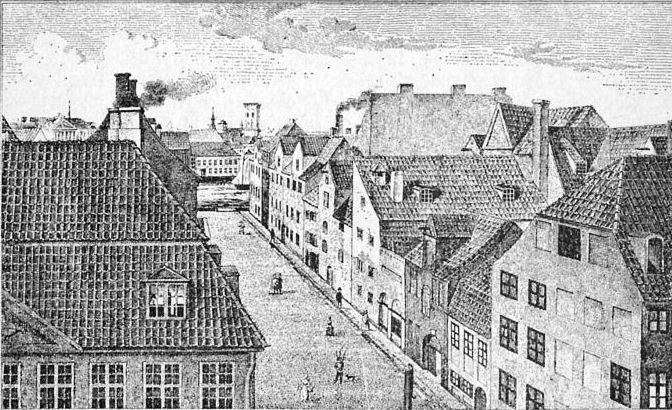 Torvegade in Christianshavn, Copenhagen, Denmark. The house row seen in the picture was demolished when the street was widened. Nikolaj Tårn and the second Christiansborg seen in the bakcground.